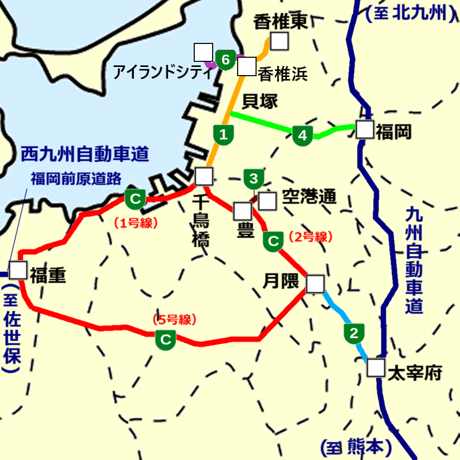 Fukuoka Expressway Map